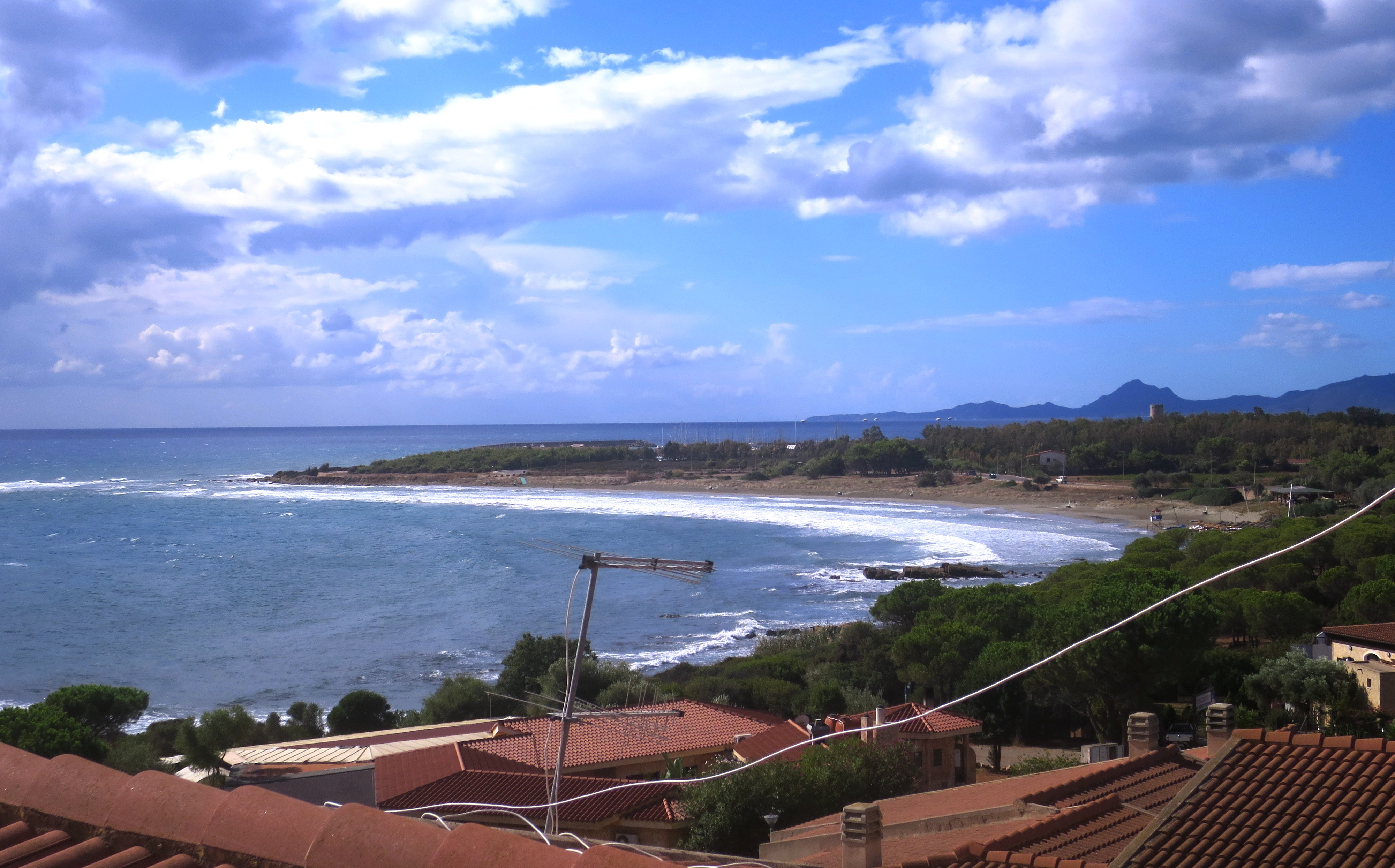 Villaputzu, Sardinia